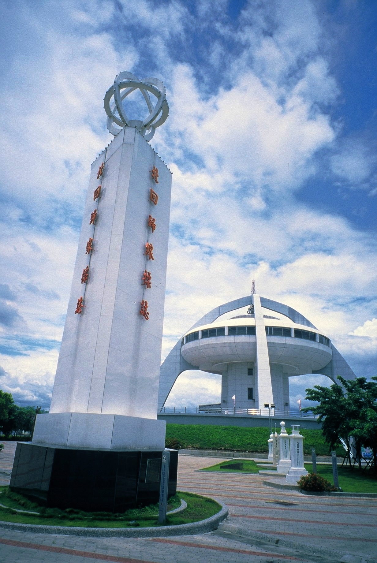 Tropic of Cancer in Chiayi Taiwan